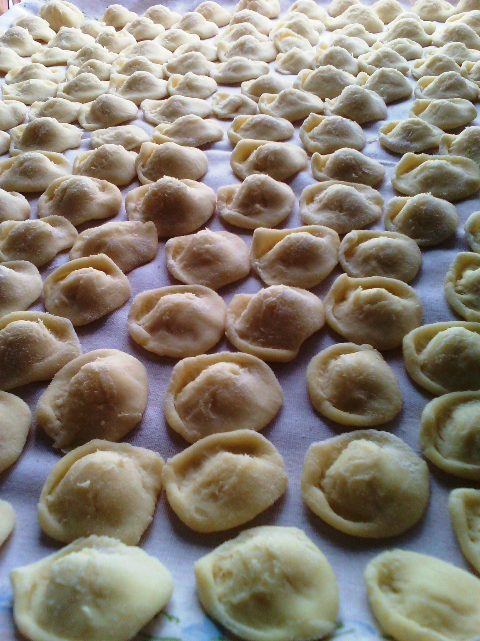 Orecchiette, tipical Italian Pasta, Satriano di Lucania, PZ, Italy